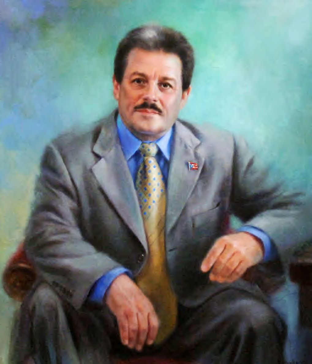 Painting of the Honorable Antonio Fas Alzamora, former Secretary of State of Puerto Rico.